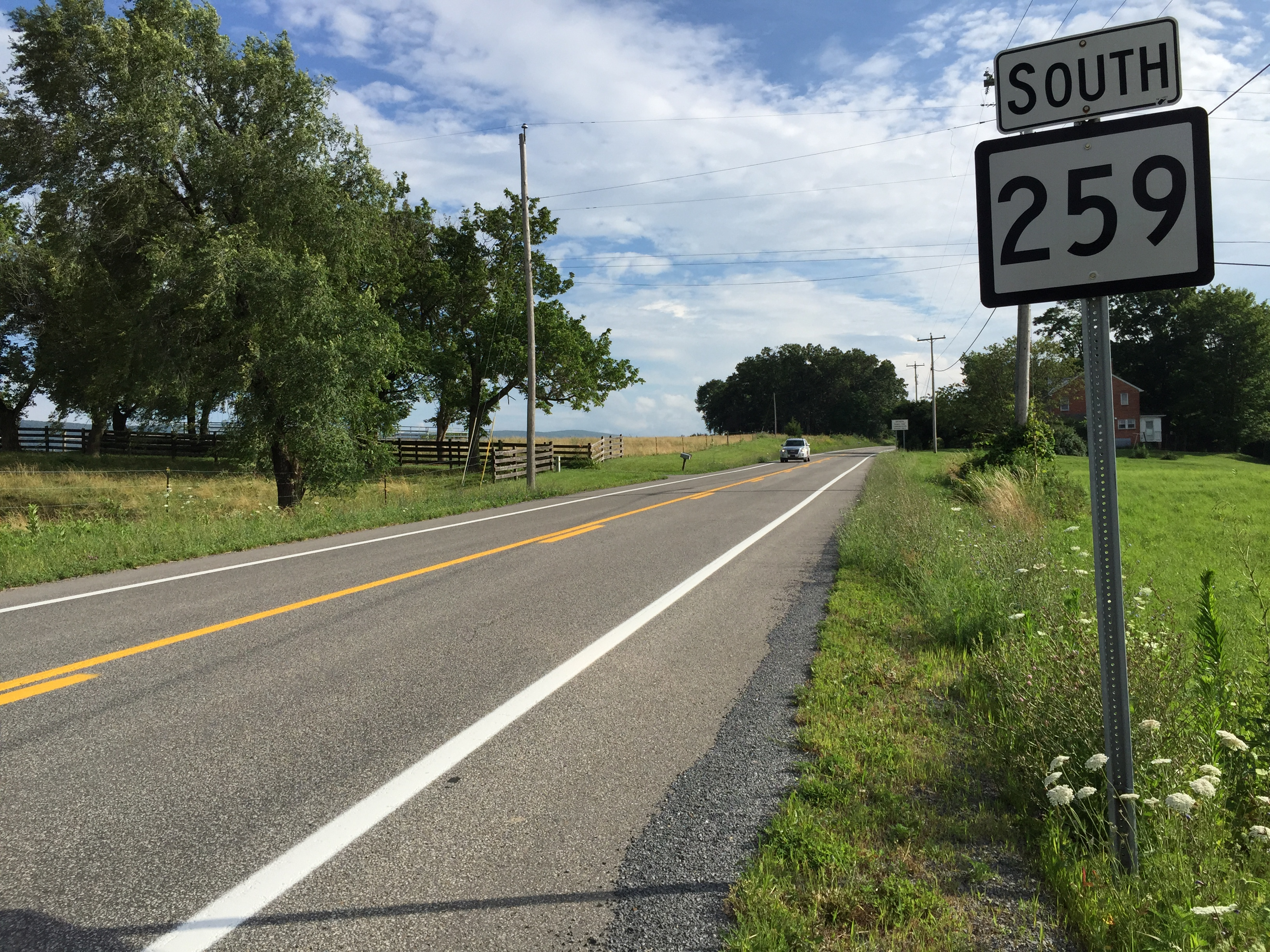 View south along West Virginia Route 259 (Carpers Pike) just south of Christian Church Road in High View, Hampshire County, West Virginia